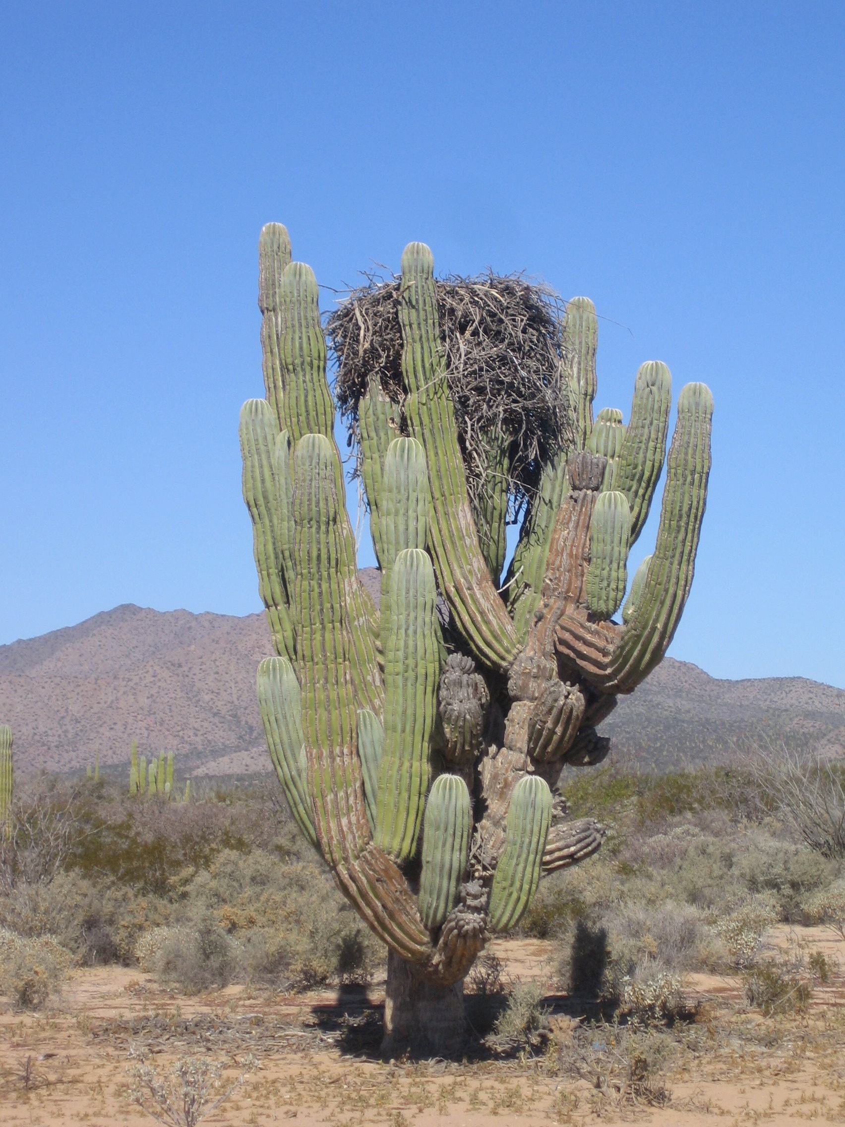 Pachycereus pringlei, cardón, sagueso, sahueso, with osprey nest, Sonora, Mexico